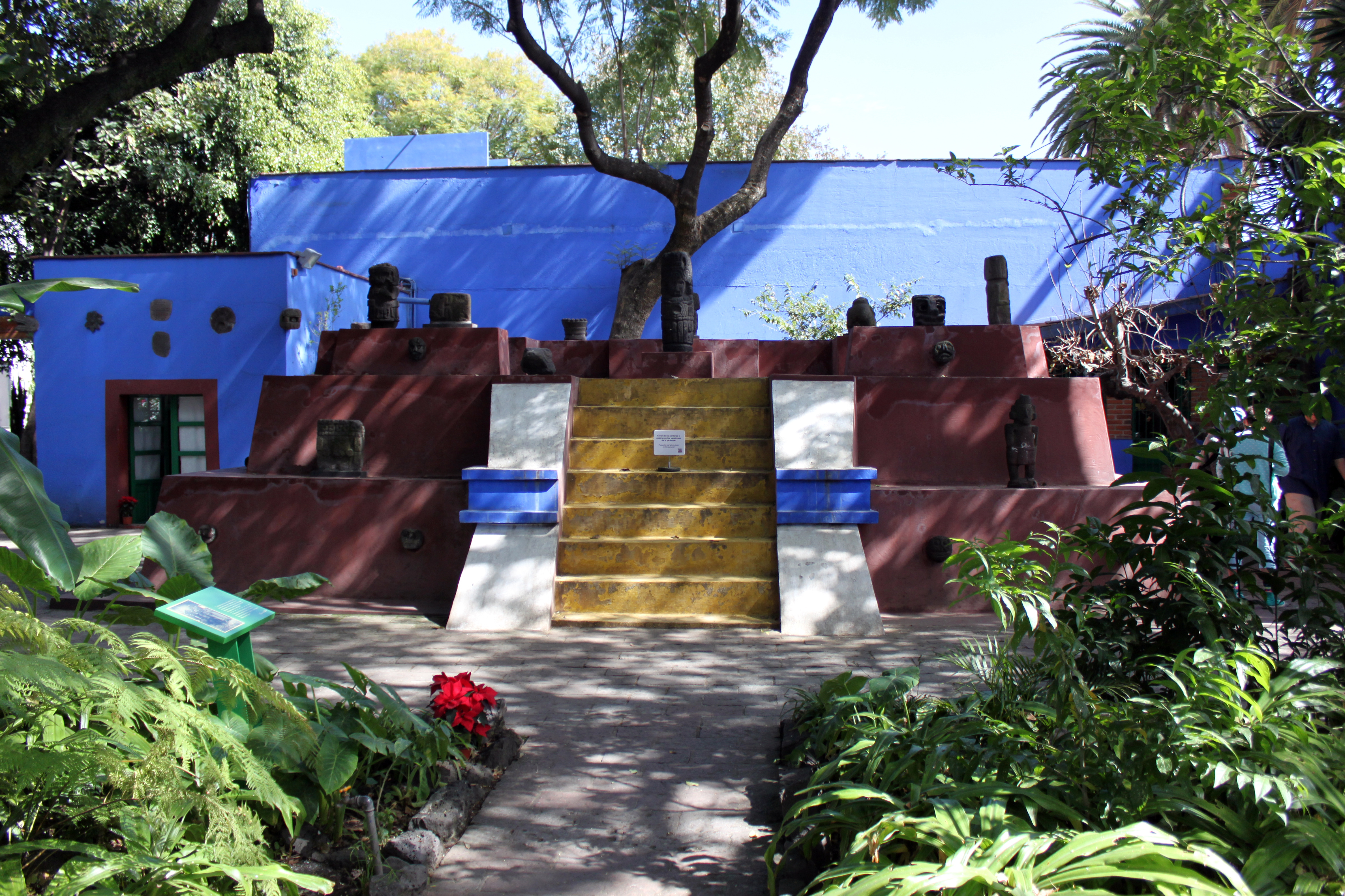 Tomb in the form of a pyramid, Frida Kahlo Museum Mexico City